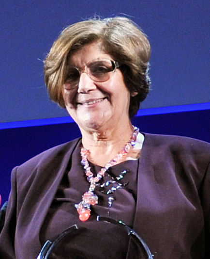 Rashika El Ridi Crop from the picture 2010 UNESCO-L’Oréal Prize for Women in Science Awards Ceremony – From left to right : Pr Elaine Fuchs (USA), Pr Anne Dejean-Assémat (France), Sir Lindsay Owen-Jones, Chairman of L’Oréal, Pr Alejandra Bravo (Mexico), Pr Lourdes J. Cruz (Philippines), Pr Rashika El Ridi (Egypt), Ms Irina Bokova, Director-General of UNESCO, and Pr Günter Blobel, Nobel Prize in Medicine 1999. UNESCO Headquarters, Paris